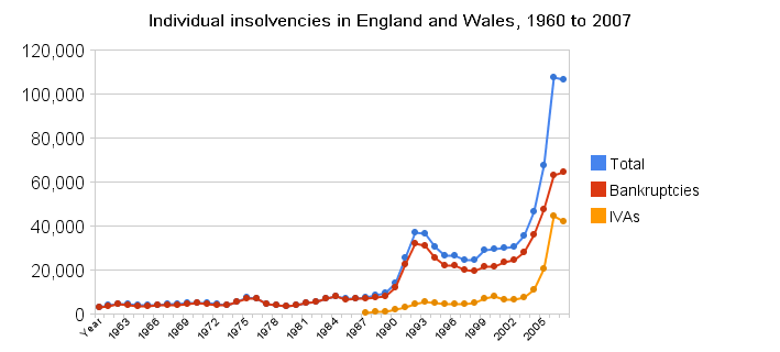 Individual insolvencies, bankruptcies and Individual Voluntary Agreements (IVAs) in England and Wales, 1960 to 2007.